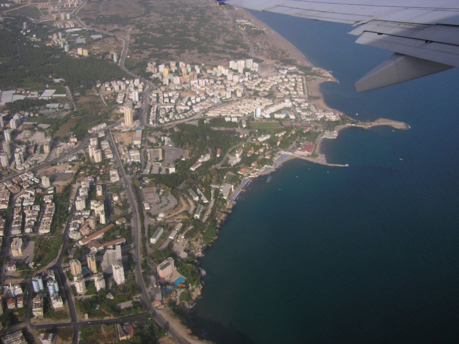 Antalya( Turkey)